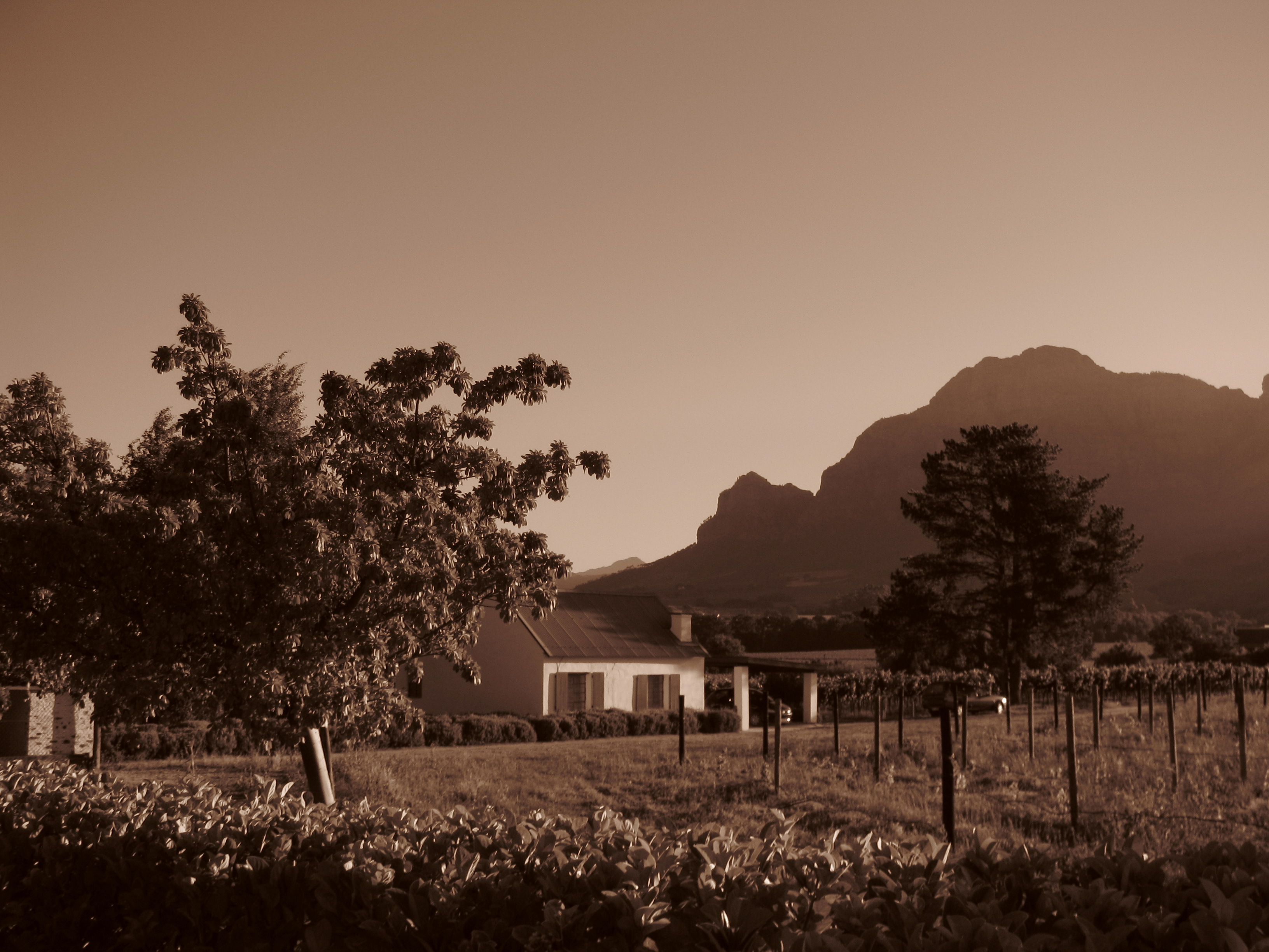 Vrede and Lust wine estate in Franschhoek, South Africa